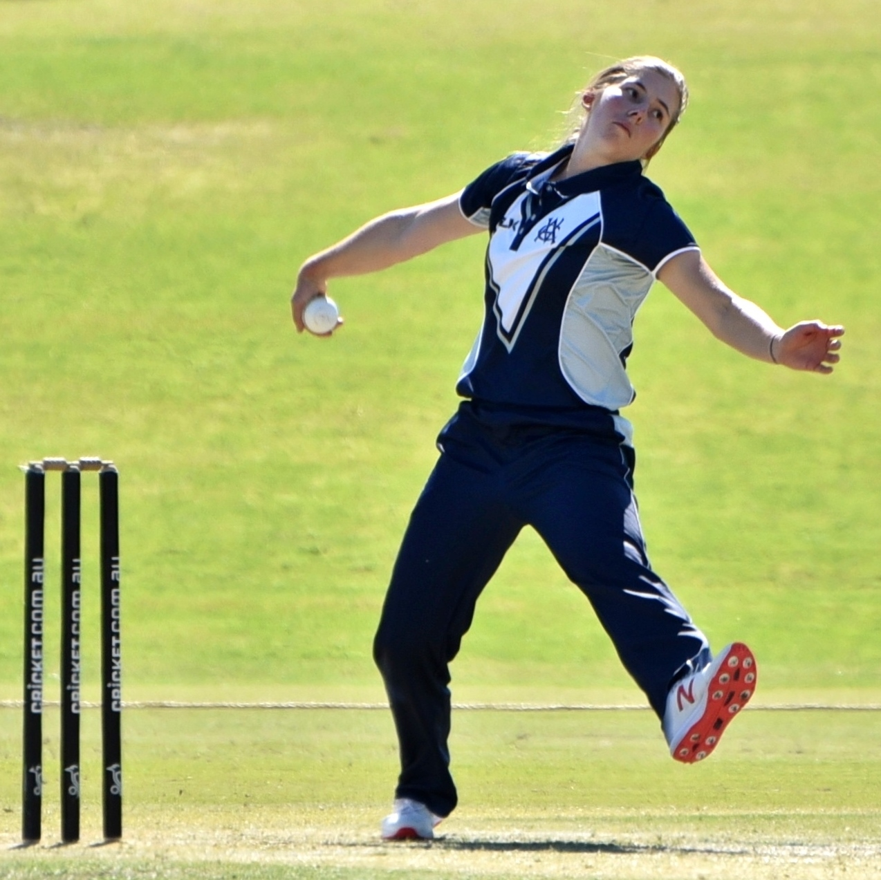 Georgia Wareham bowling for the Victoria Women cricket team during a WNCL clash against the South Australian Scorpions at Murdoch University Sports Oval in Perth